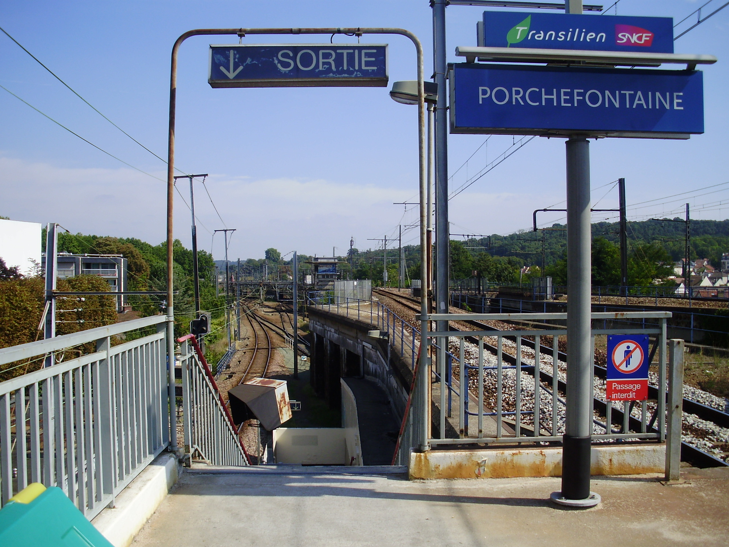 Porchefontaine station, in Versailles, Yvelines, France (view of the junction in the east of the station from the high platform to Versailles-Rive-Gauche)